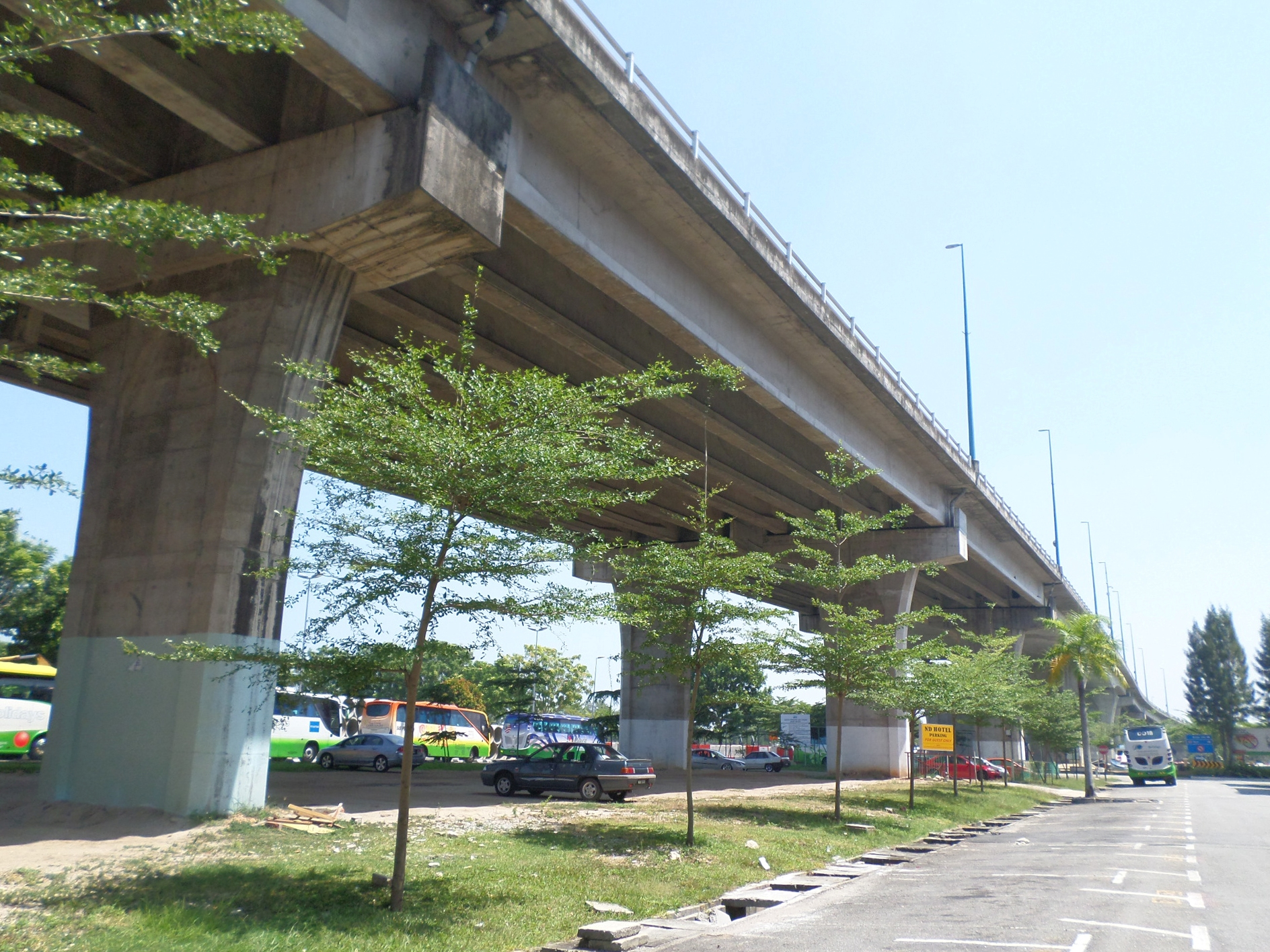 Melaka Coastal Bridge, Melaka City, Central Melaka, Melaka, MalaysiaBahasa Melayu: Jambatan Pantai Melaka, Bandaraya Melaka, Melaka Tengah, Melaka, Malaysia